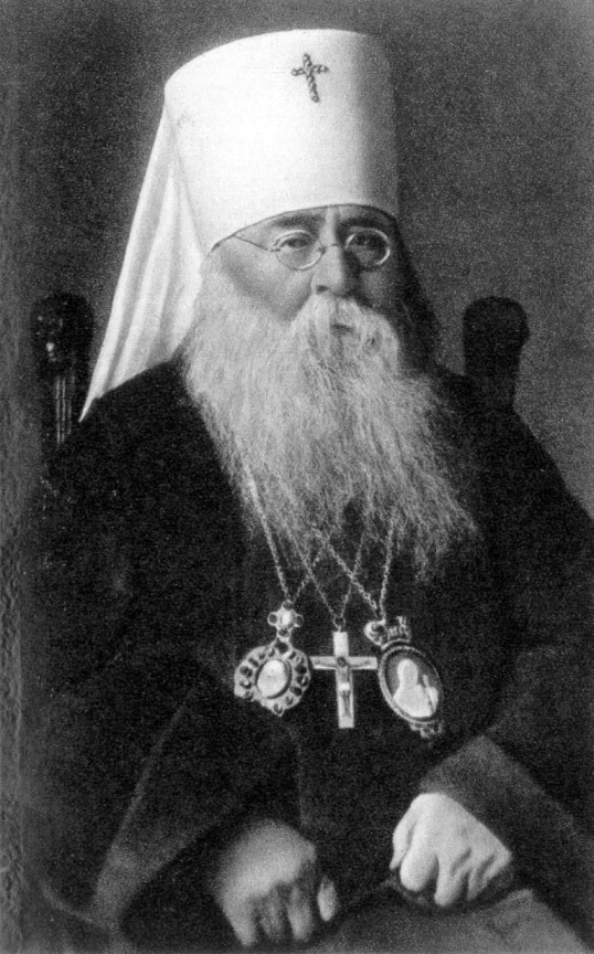 Metropolitan Sergius of Moscow and Kolomna